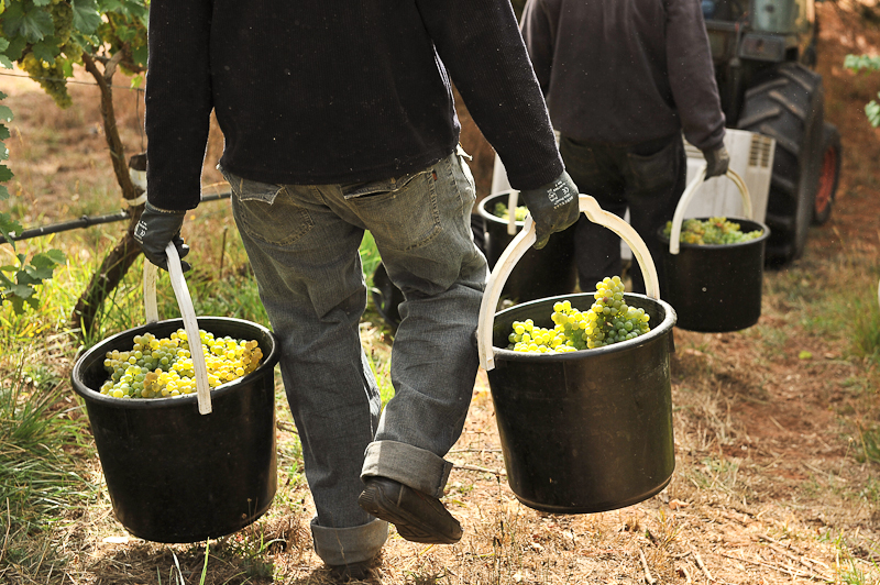 Gruner Veltliner Grapes being harvested at Hahndorf Hill in the Adelaide Hills wine region during harvest 2013